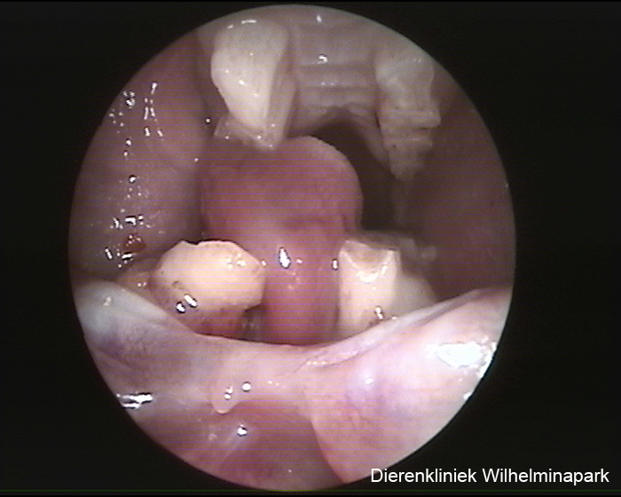 Oversized, crooked molars of Octodon degus. Inflammation of the tongue.